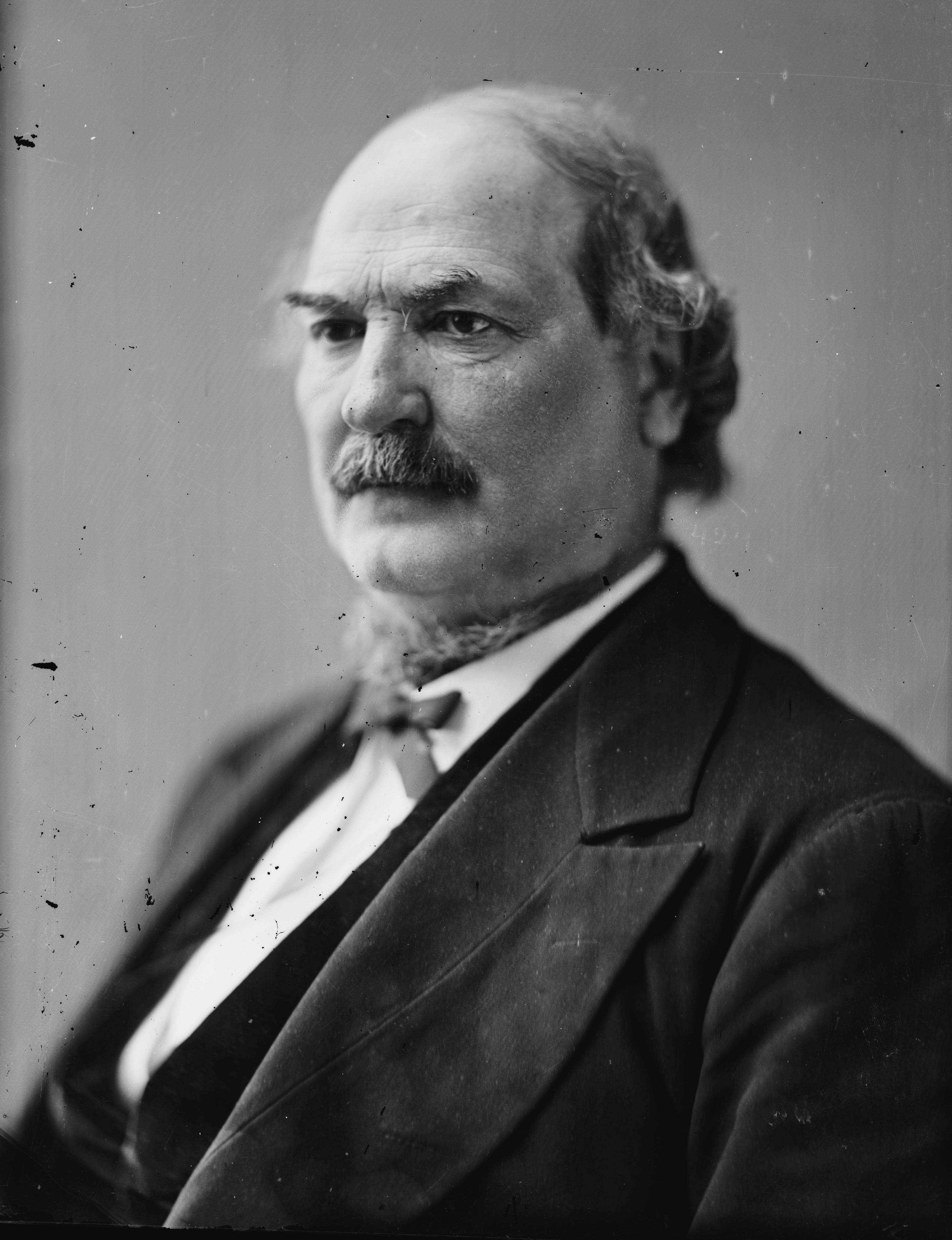 Joseph E. McDonald. Library of Congress description: "McDonald, Hon. J.E. of Ind.".